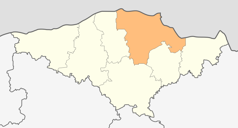 Map of Silistra municipality, Silistra Province